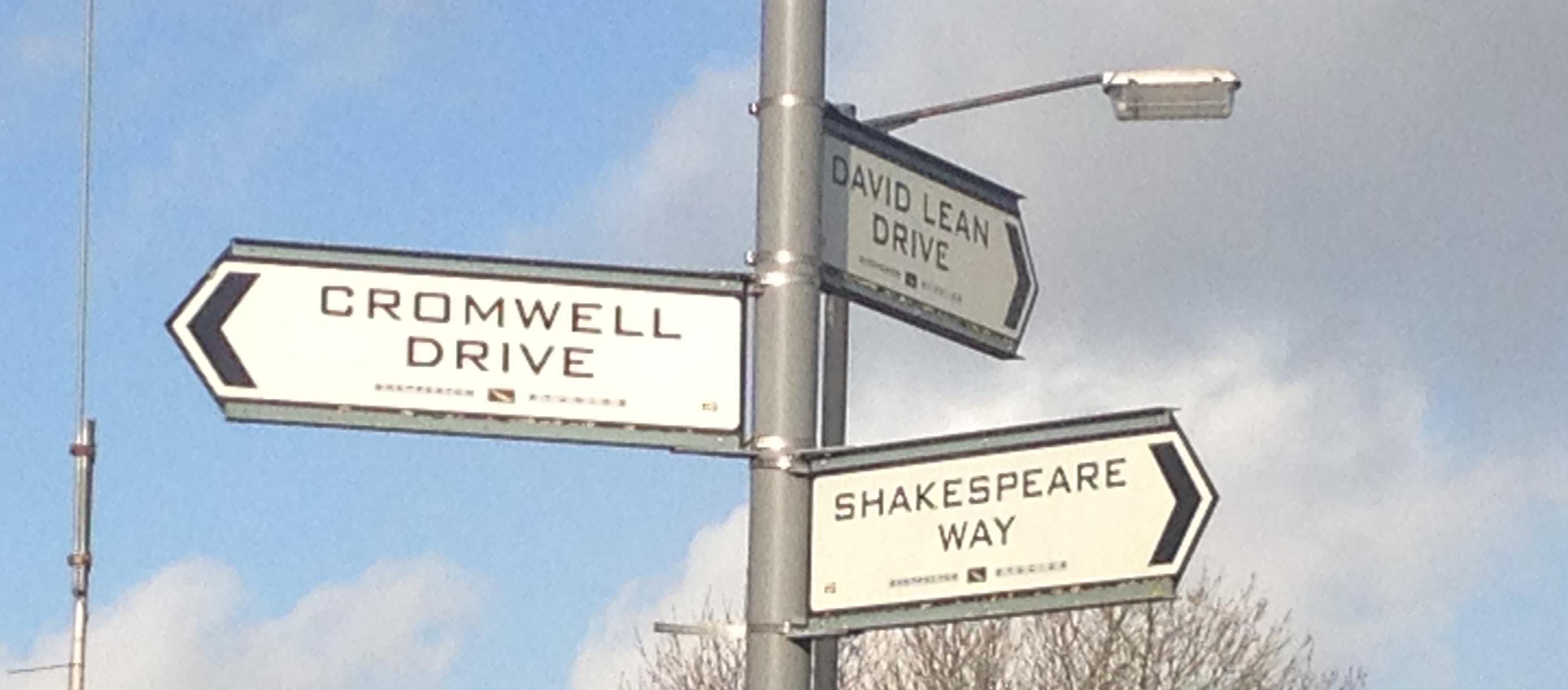 Fingerpost at Shepperton Studios, Littleton, Middlesex